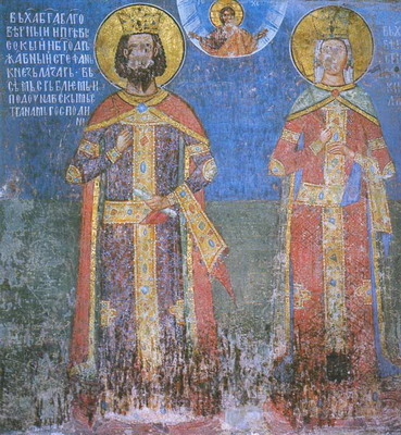 Fresco of Lazar and Milica in Ljubostinja monastery, near Trstenik, Serbia.